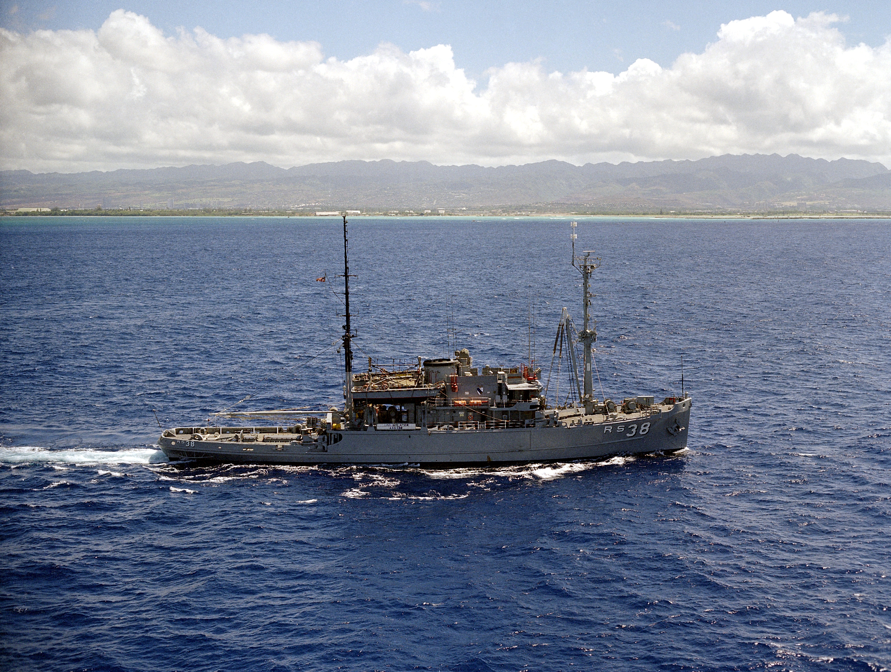 The U.S. Navy rescue and salvage ship USS Bolster (ARS-38) underway at sea on 1 June 1974.